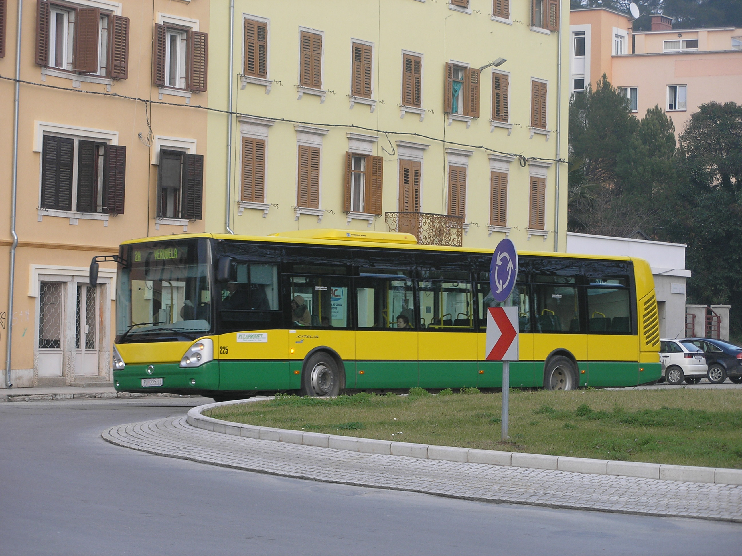 A Pulapromet bus